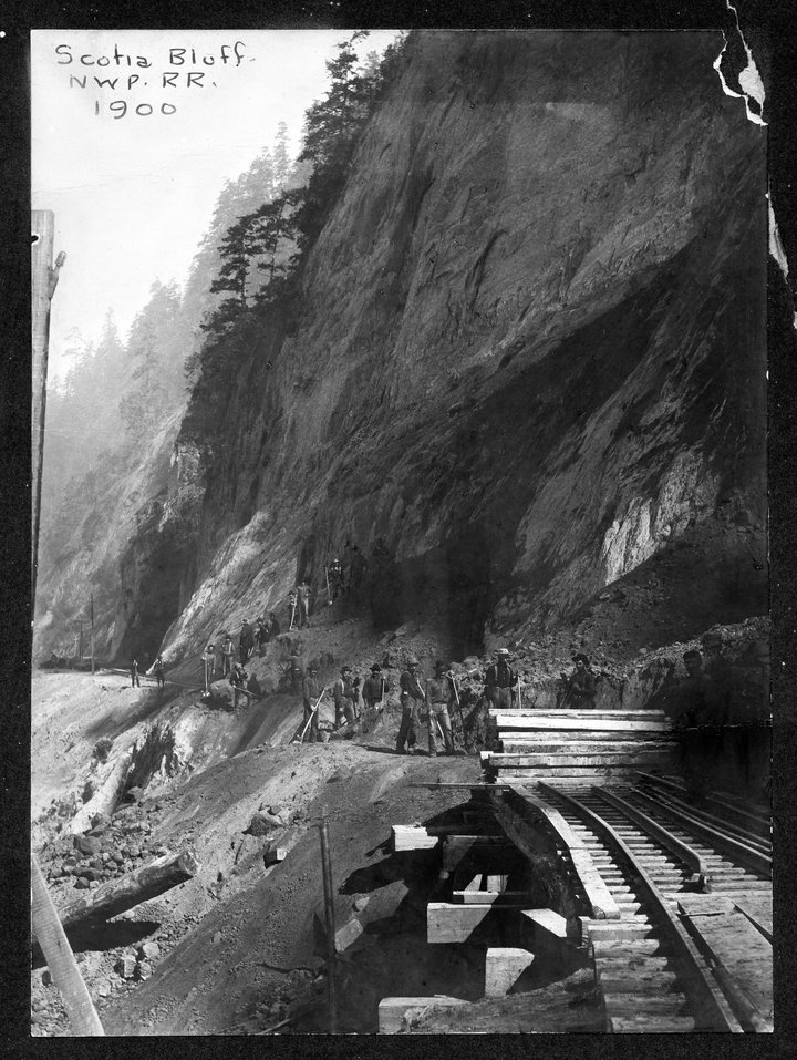 Workers for the Northwestern Pacific Railroad laying track along Eel River at Scotia in Humboldt County, California in 1900.